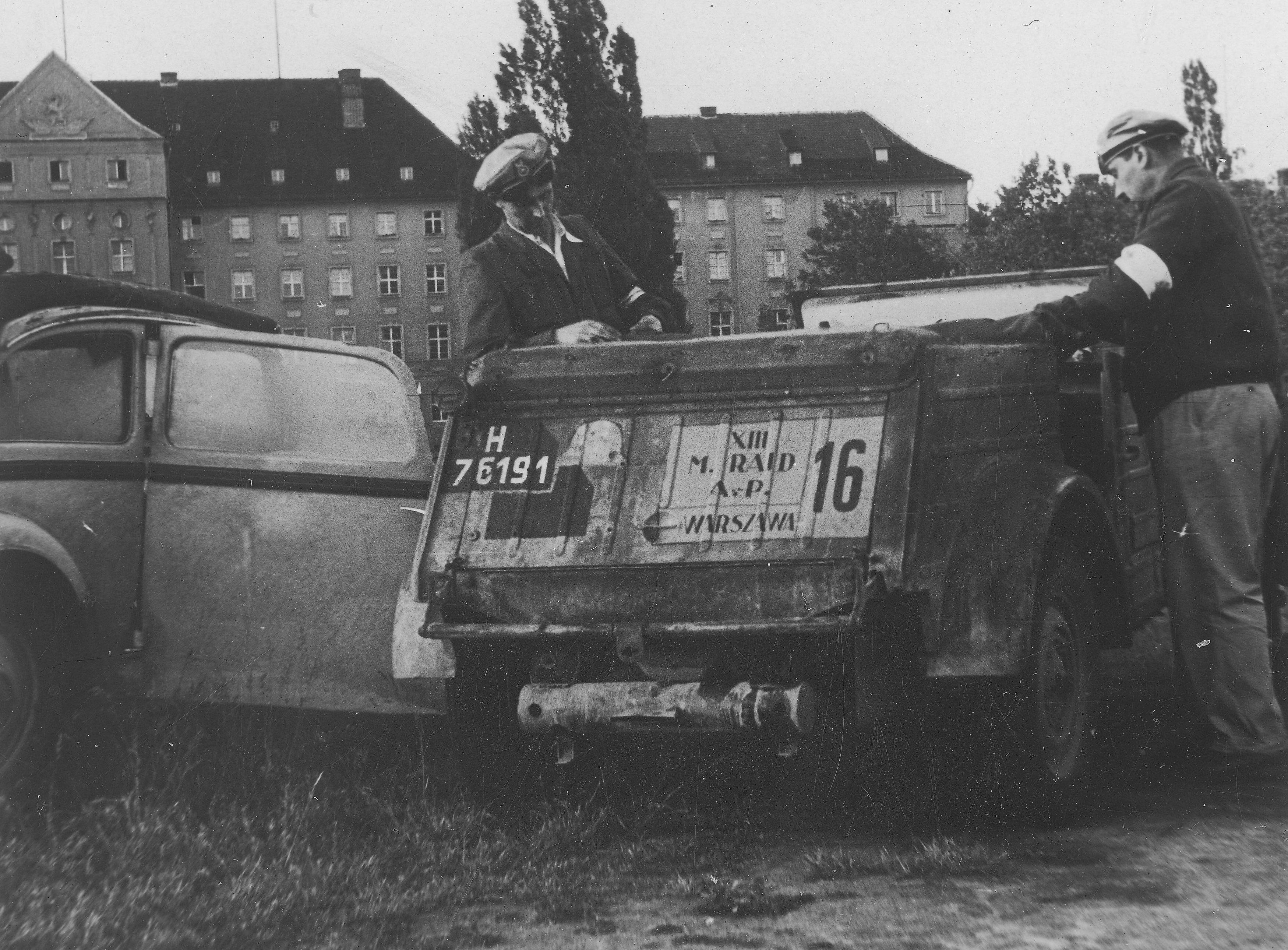 13th Rally Poland in Szczecin. Warsaw 1946-56 license plates (non-standard German shape)